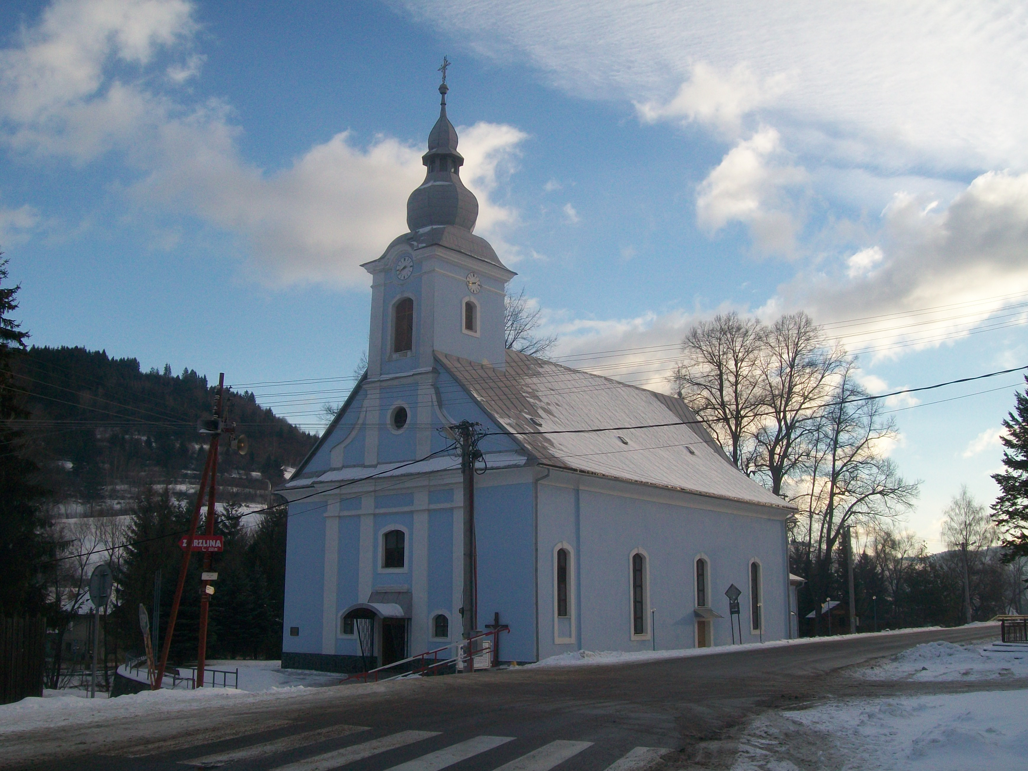 Church of the Assumption in Čierny Balog